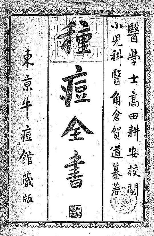 TENNENTO